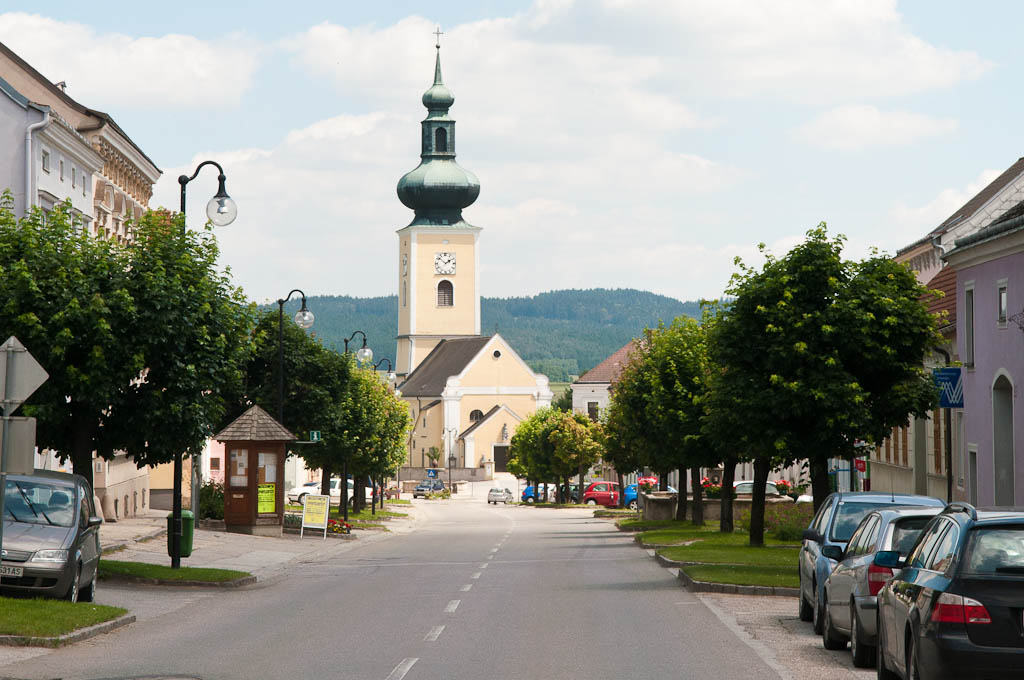 Thaya in the Lower Austrian Waldviertel, mainstreet heading east